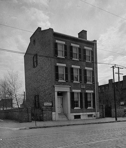 Eugene Field House, 634 South Broadway, Saint Louis (St. Louis City County, Missouri). - cropped This file comes from the Historic American Buildings Survey (HABS), Historic American Engineering Record (HAER) or Historic American Landscapes Survey (HALS). These are programs of the National Park Service established for the purpose of documenting historic places. Records consist of measured drawings, archival photographs, and written reports. This tag does not indicate the copyright status of the attached work. A normal copyright tag is still required. See Commons:Licensing. This work is in the public domain in the United States because it is a work prepared by an officer or employee of the United States Government as part of that person’s official duties under the terms of Title 17, Chapter 1, Section 105 of the US Code. Note: This only applies to original works of the Federal Government and not to the work of any individual U.S. state, territory, commonwealth, county, municipality, or any other subdivision. This template also does not apply to postage stamp designs published by the United States Postal Service since 1978. (See § 313.6(C)(1) of Compendium of U.S. Copyright Office Practices). It also does not apply to certain US coins; see The US Mint Terms of Use. This file has been identified as being free of known restrictions under copyright law, including all related and neighboring rights. Object location38° 37′ 11″ N, 90° 11′ 30″ W